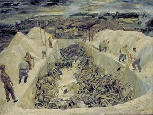 [1945 painting]: View from one end of a huge mass-grave containing the emaciated remains of Belsen inmates. SS guards, guarded by British soldiers, are throwing more bodies into the pit. Part of the Belsen compound can be seen in the background. Of the 60,000 inmates found, 14,000 died in the first week.